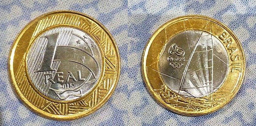 Brasil coin 1 real